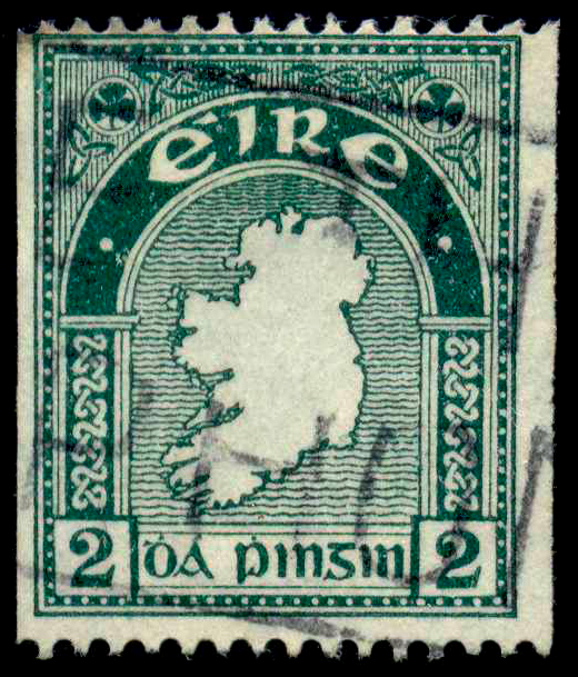 Used 1935 2d Map of Ireland experimental coil stamp of Ireland, Scott catalog No. 68b, SG no. 74b - The scarcest and most valuable Irish postage stamp.